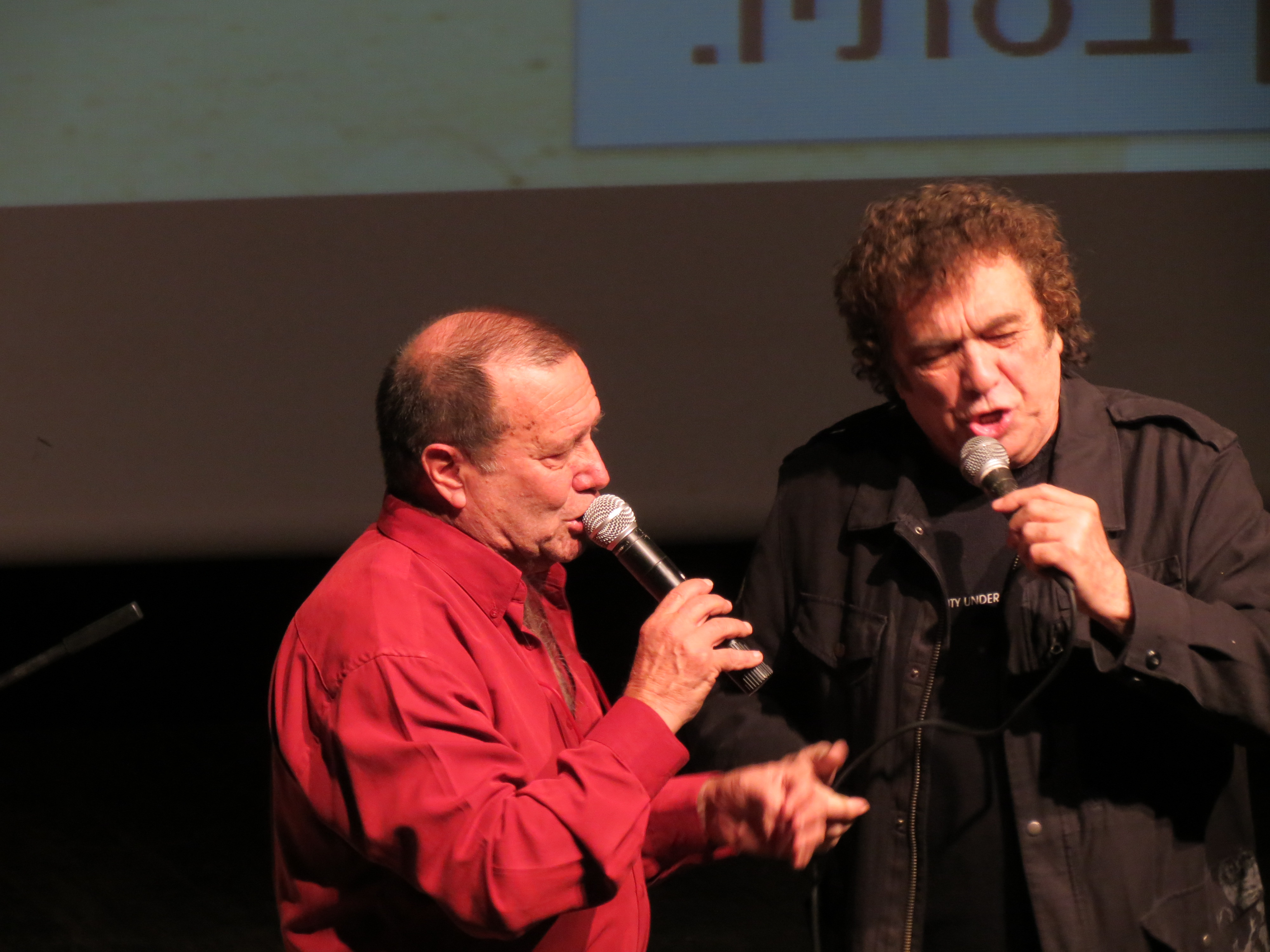 israeli singers gabi berlin (Lt.) and ran eliran הזמרים גבי ברלין (שמאל) ורן אלירן בהופעה